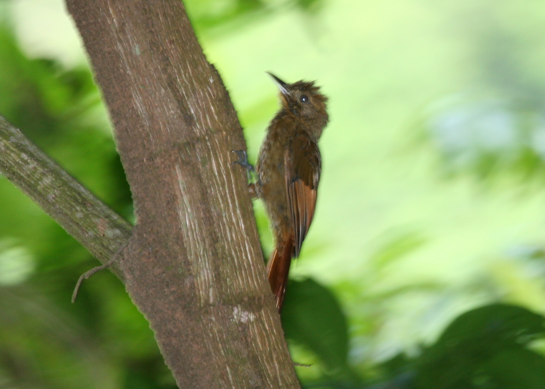 Tawny-winged Woodcreeper (Dendrocincla anabatina) Dysmorodrepanis 20:05, 29 May 2008 (UTC)